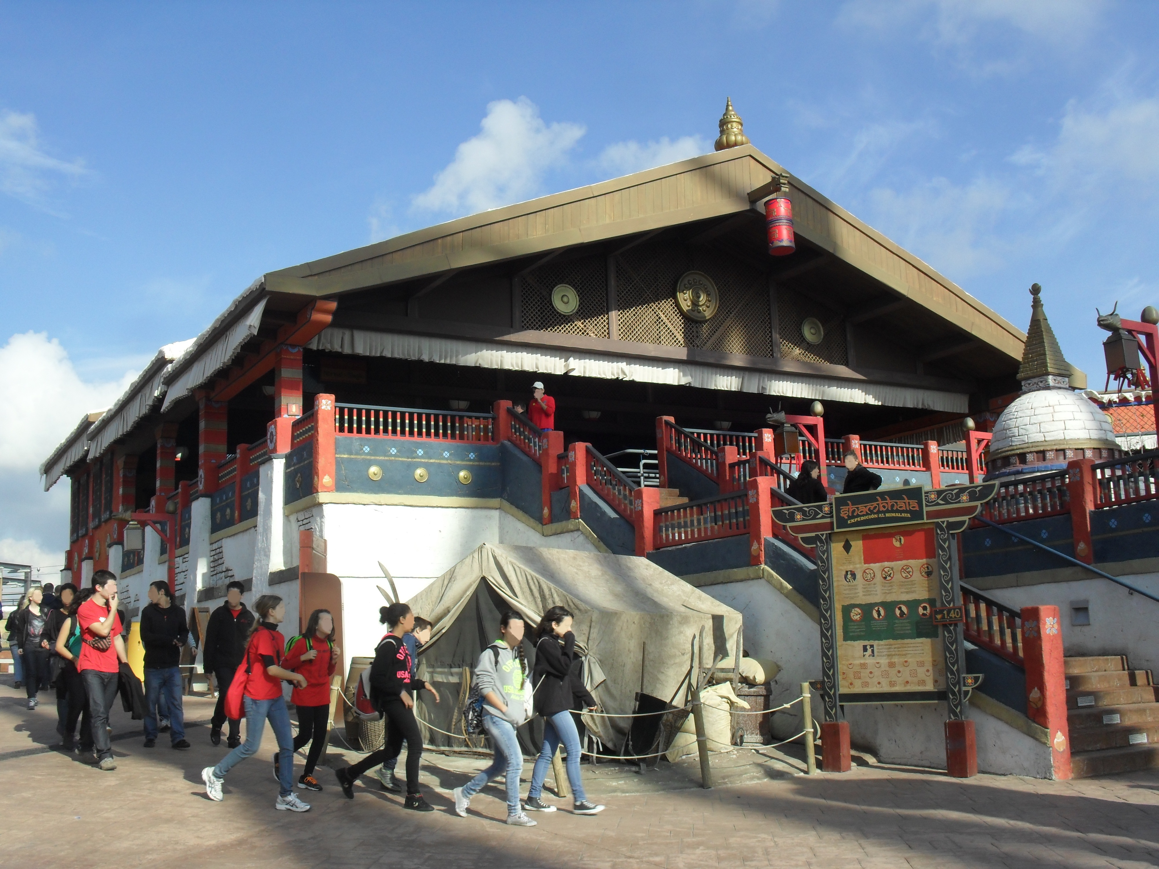 The queue building of Shambhala at PortAventura, Spain